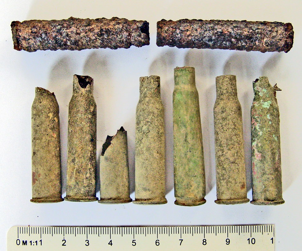 Kartena hillfort, Kretinga district, LithuaniaLietuvių: Kartenos piliakalnis, Kretingos rajonas, Lietuva